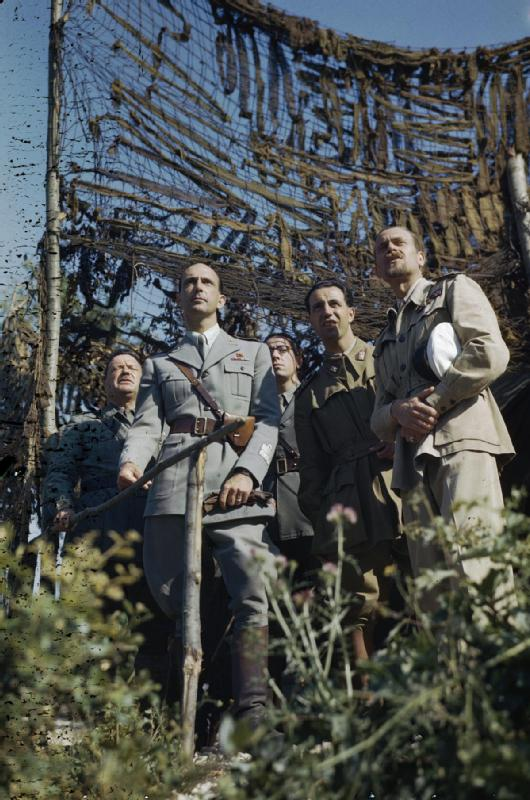 Hrh Prince Umberto of Italy, May 1944 HRH Prince Umberto of Italy and his staff in a camouflaged position watching Italian Troops on manoeuvres during the Prince's visit to the Italian Corps of Liberation, Sparanise, Italy.